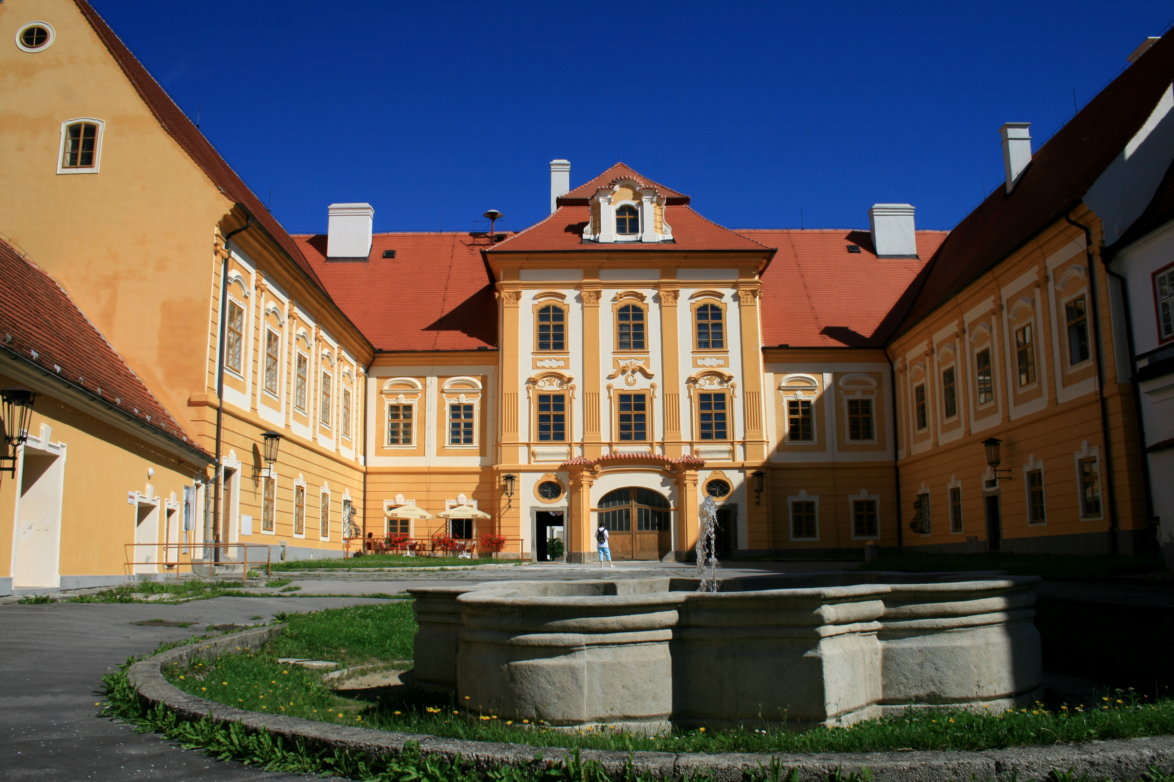 Castle in Borovany, south Bohemia